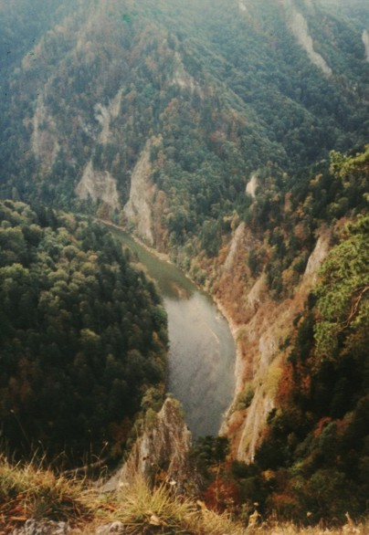 Dunajec (river) in Pieniny (mountains). View from Sokolica.